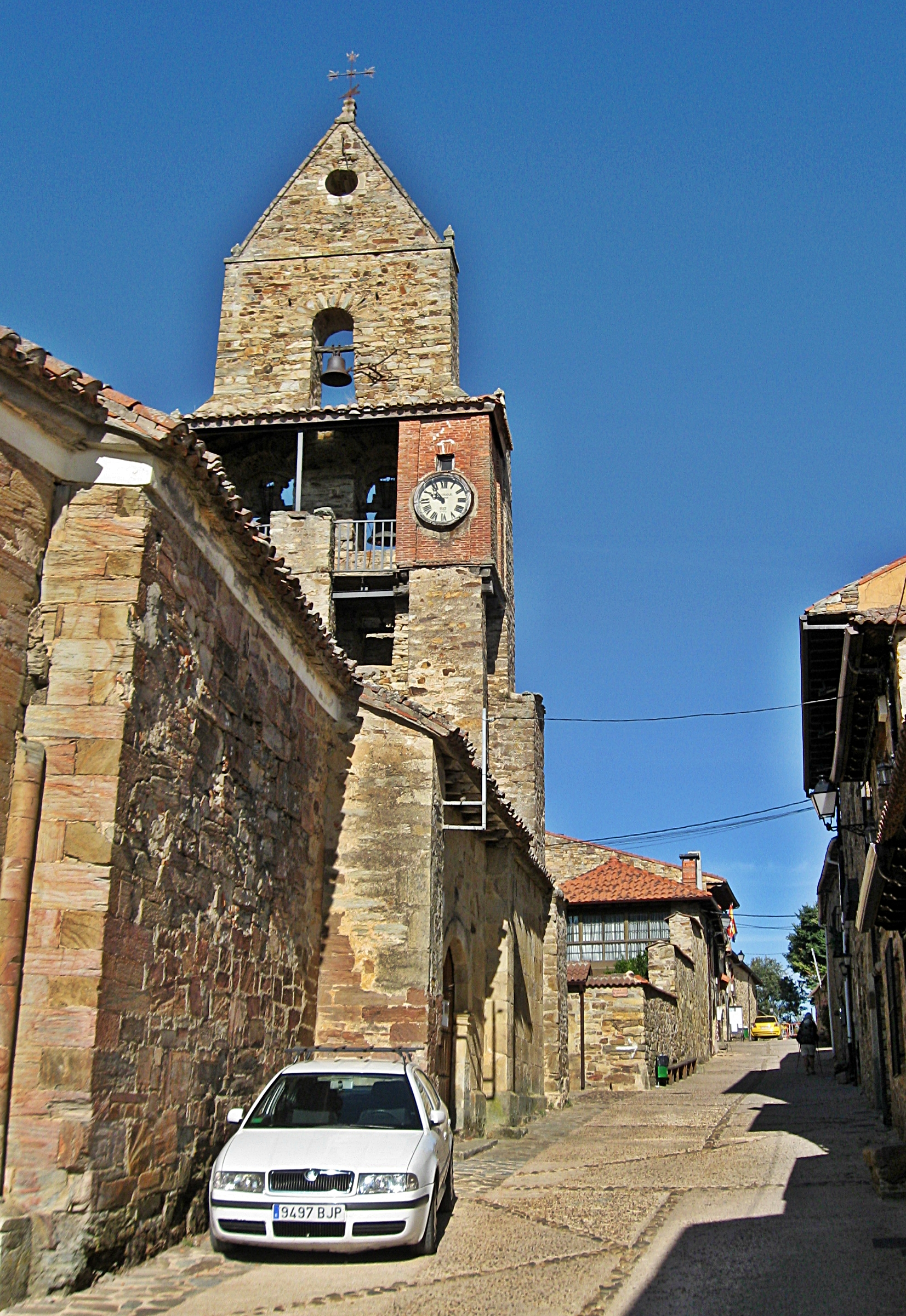 Rabanal del Camino in Spain - small village on the Camino de Santiago